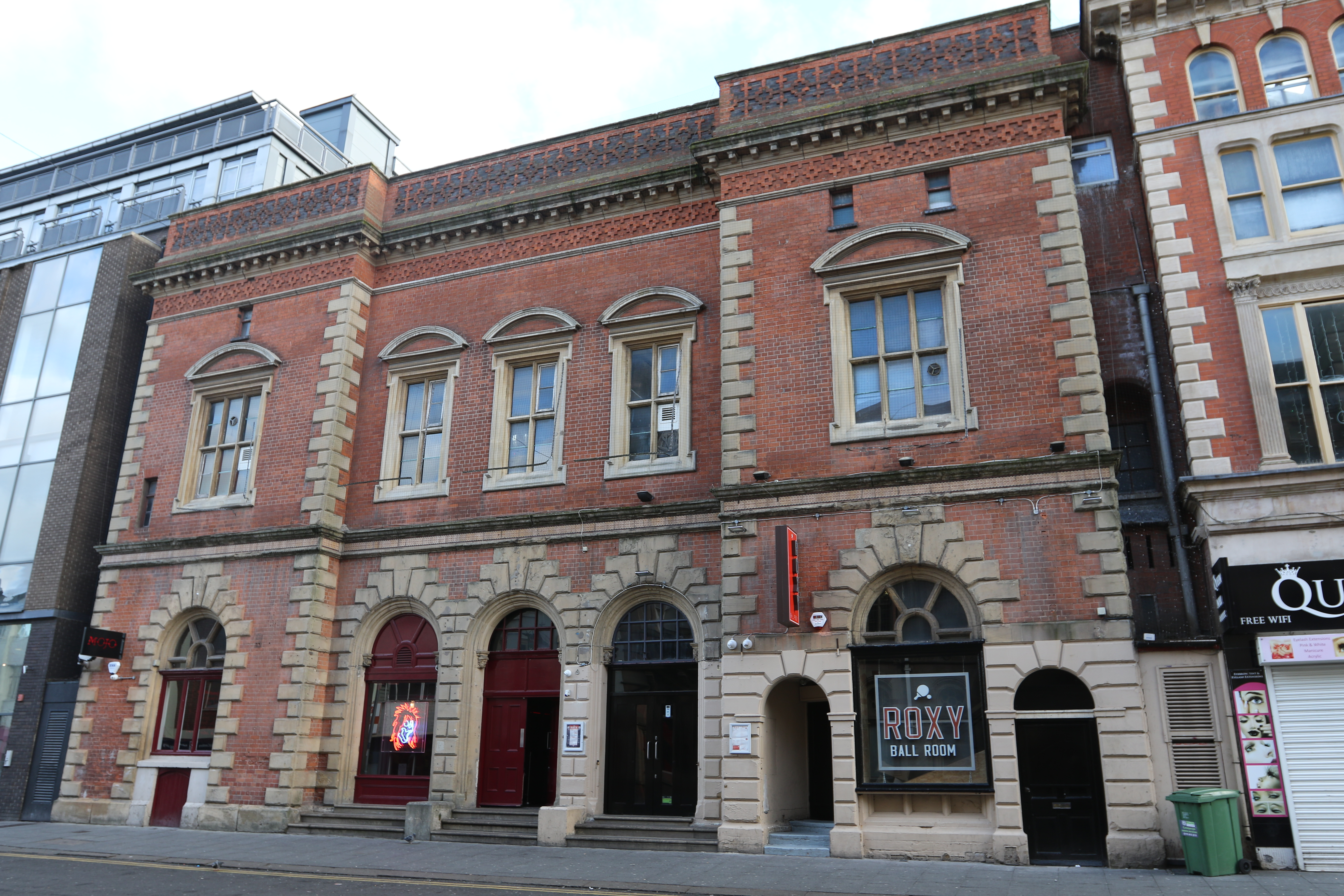 By Thomas Chambers Hine 1849-50